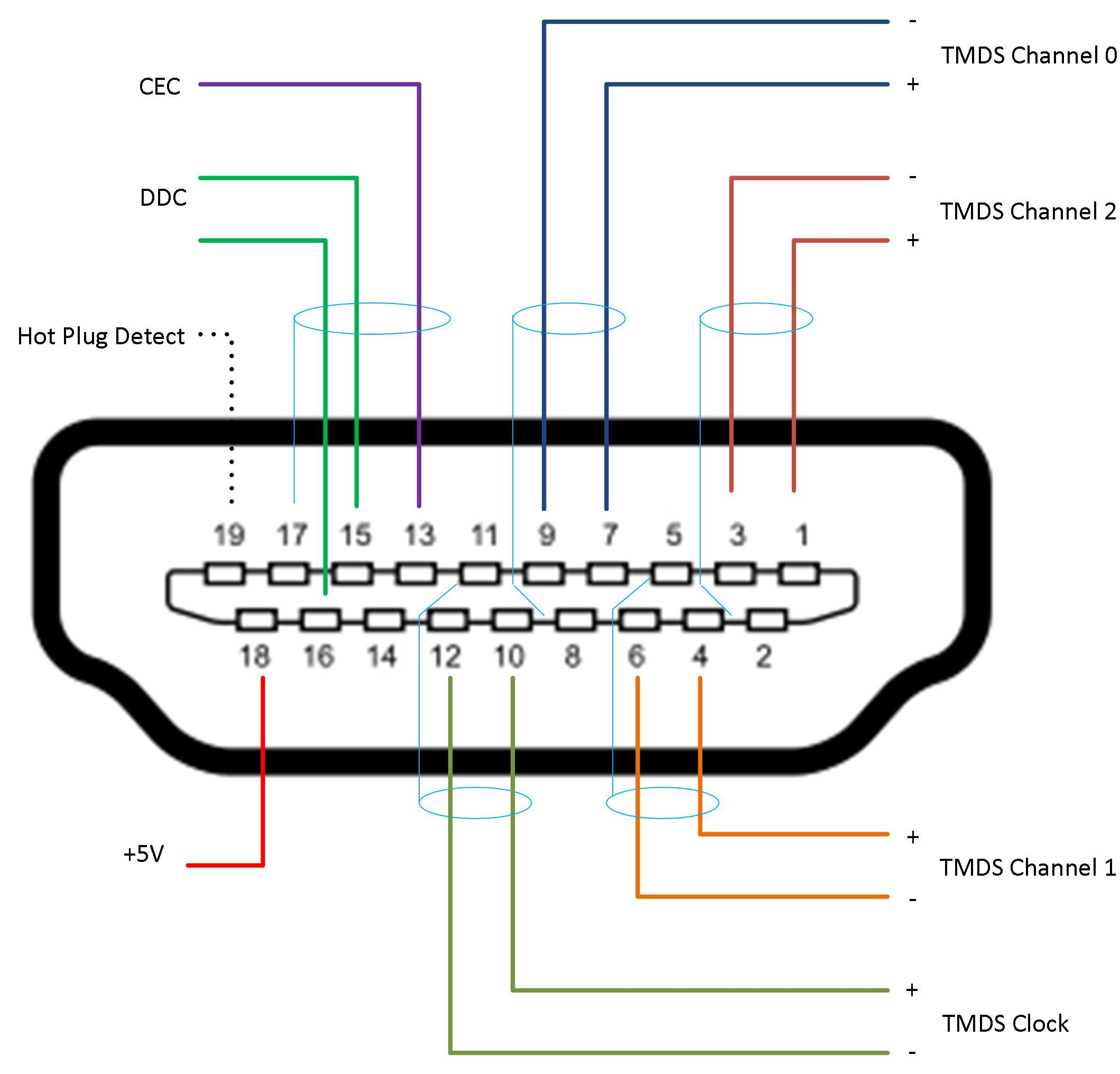 This image shows you the pin names.